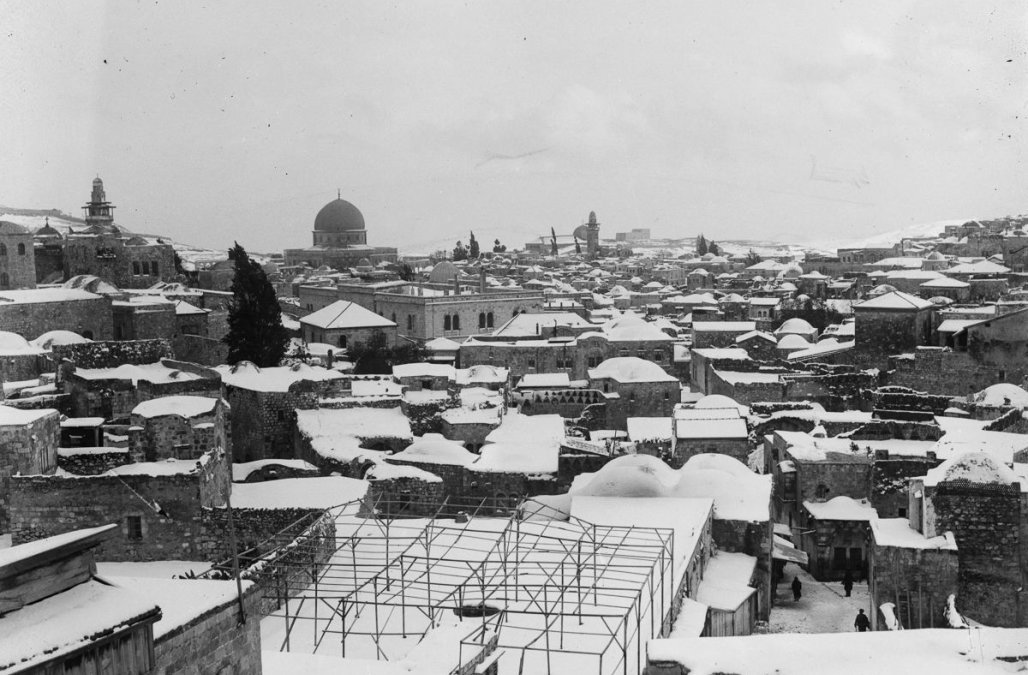 A rare snowfall in Jerusalem in 1921. View of Old City roof tops with mosque in the distance